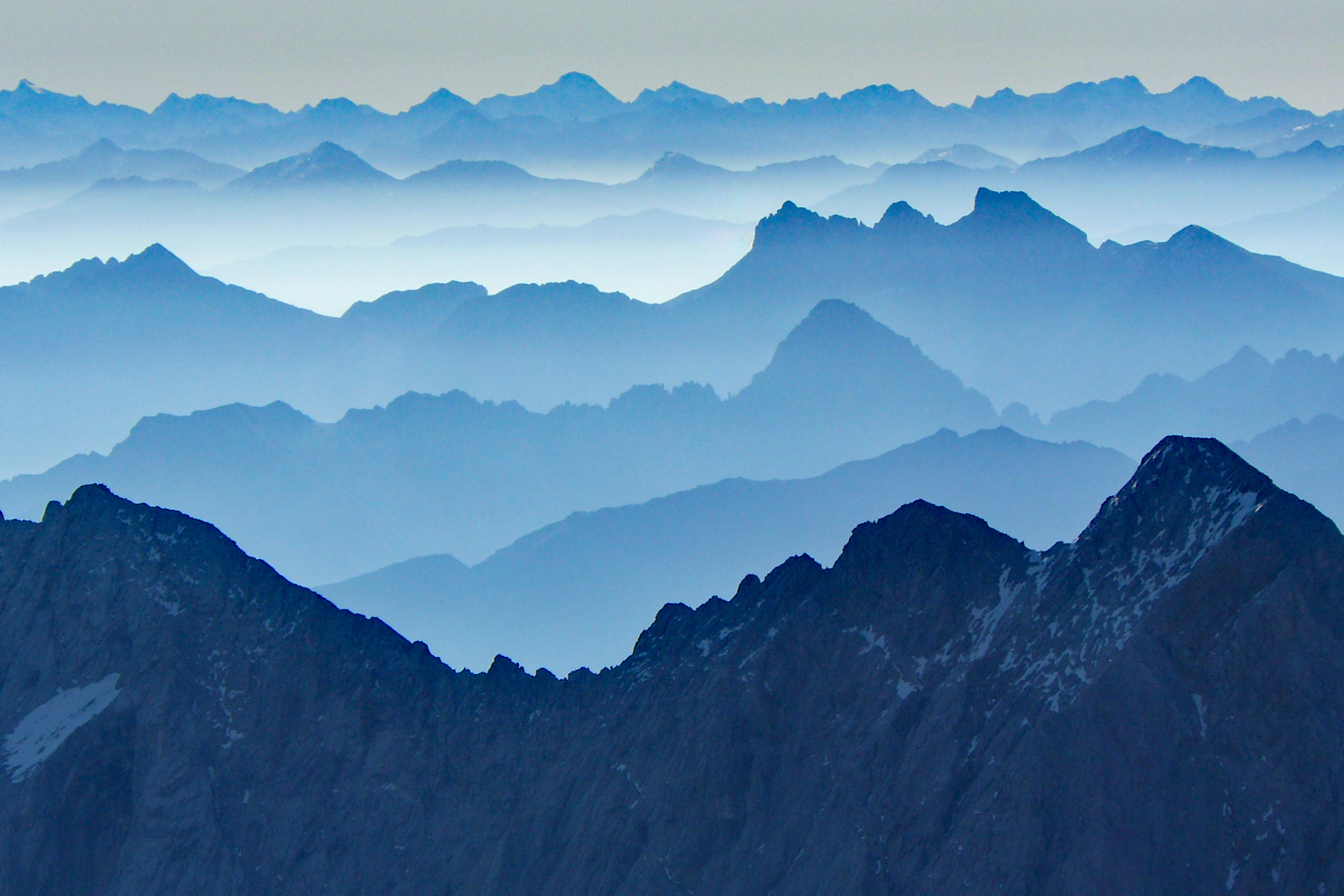 View from the Summit of the Zugspitze